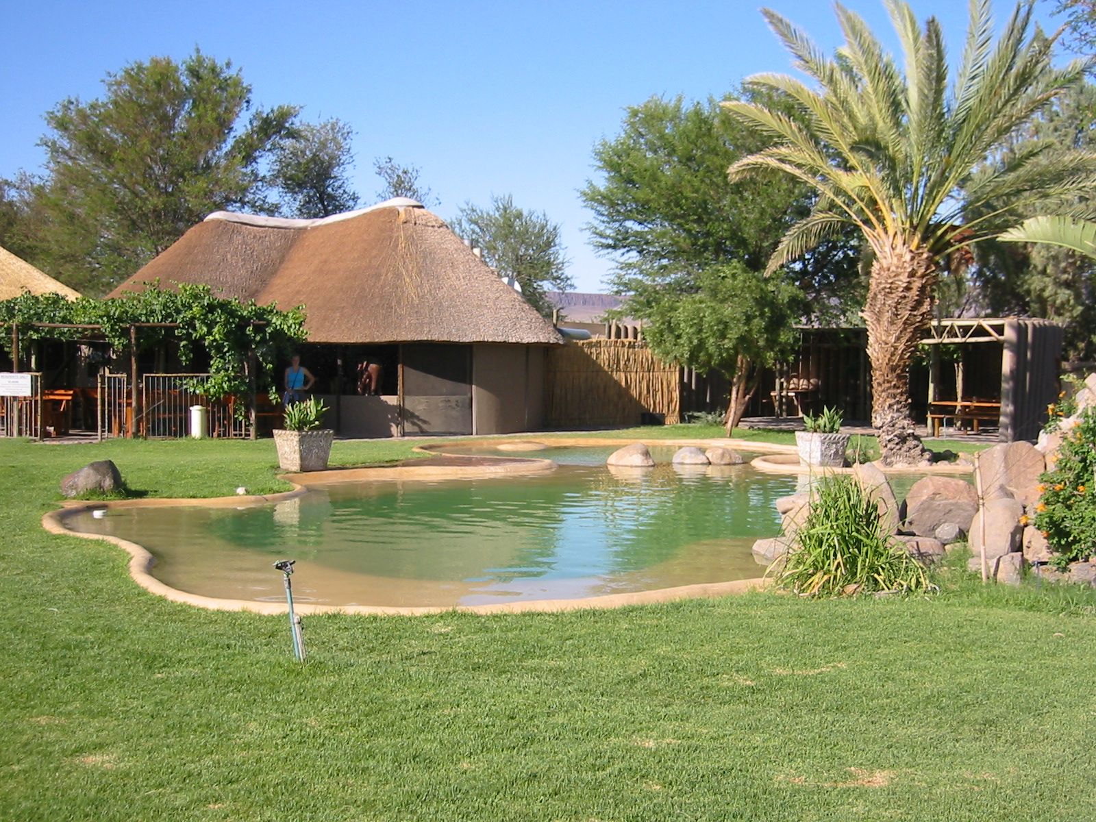 This was the pool at the Norotshama River Resort. Good there was one because it was 43 degrees out there. The river resort is some fifty kilometres northwest of the village of Noordoewer on the farm Aussenkehr.